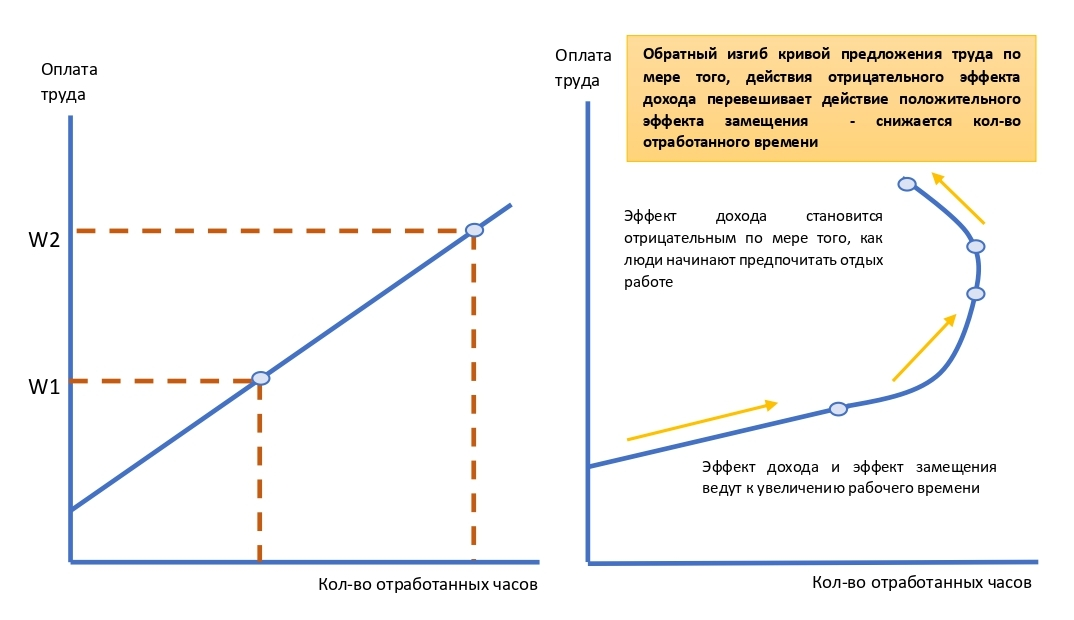 Change in labor supply as wages rise